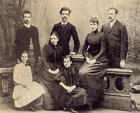 Anni Helmi Krohn also Helmi Setälä (31 October, 1871 – 18 October, 1967) was a Finnish writer who wrote fiction, biographies and for children. She was also an editor and publisher. Note - her marriage was over by 1913